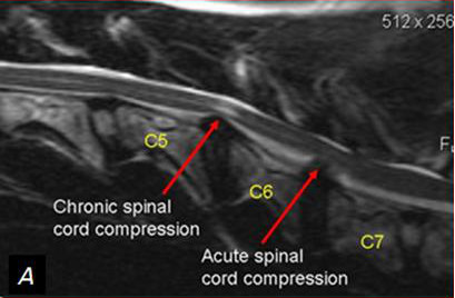 T2 weighted MRI in neutral traction of a 7 year old Doberman with a 2 year history of cervical pain treated with NSAID and presented acutely tretraplegic. A C6-C7 and C5-C6 traction responsive myelopathy are evident on MRI. The spinal cord hyperintensity seen at the C5-C6 is suggestive of chronic lesion and most likely responsible for the chronic history of cervical pain, while the C5-C6 lesion was most likely responsible for the acute tetraplegia.